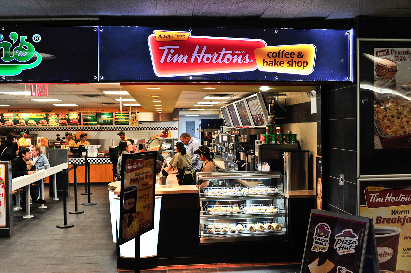 Tim Hortons Coffee & Bake Shop in New York City.